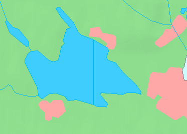 Lake Glan in Sweden. Bounding box West 15.8°, South 58.55°, East 16.2°, North 58.7°. Center at 58°37′30″N 16°00′00″E / 58.62500°N 16.00000°E.